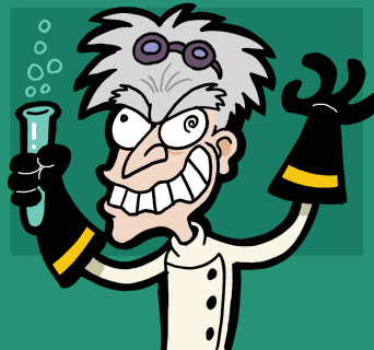 Caricature of a mad scientist.